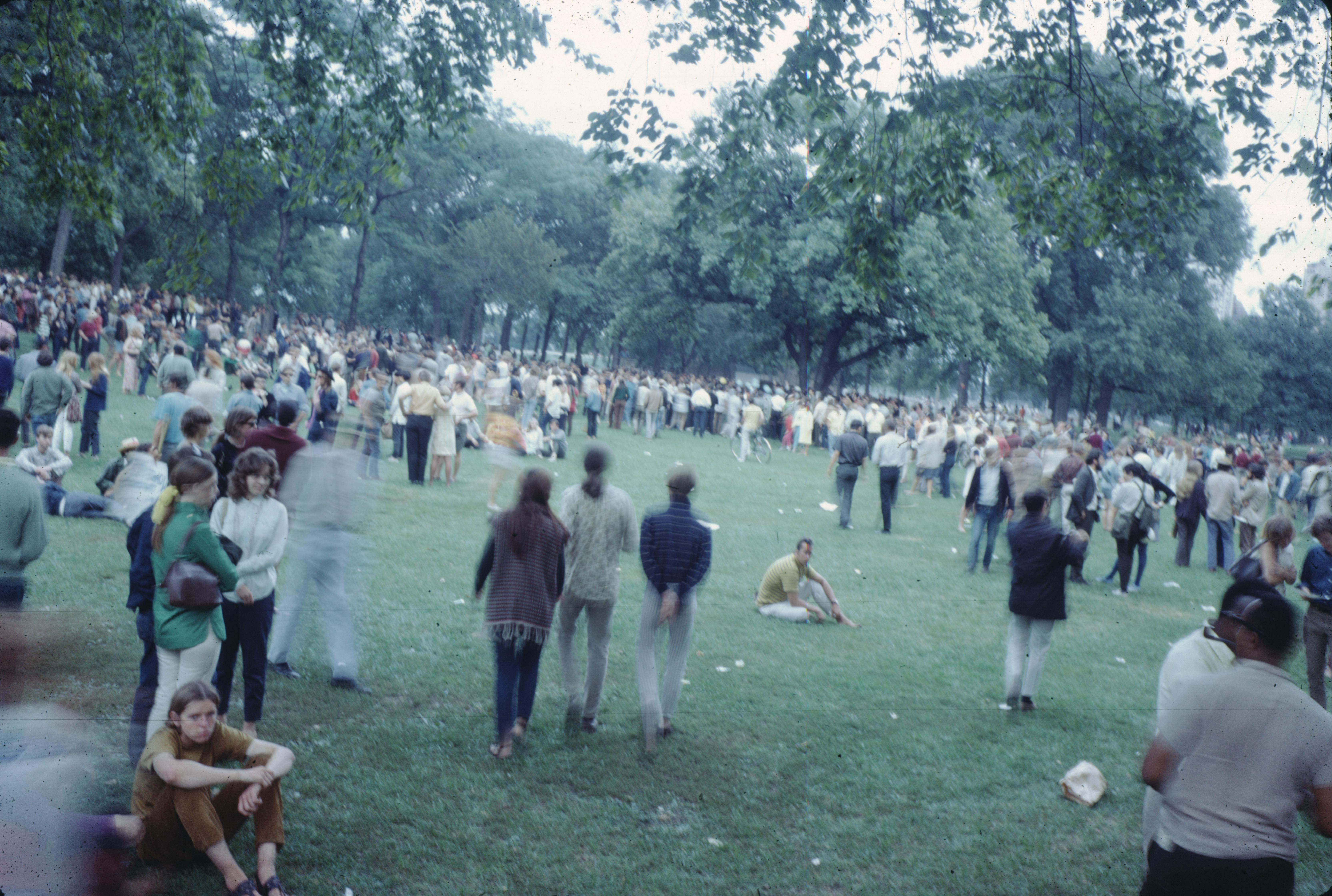 CyberViewX v5.16.55 Model Code=58 F/W Version=1.21 Photography by Victor Albert Grigas (1919-2017)